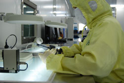 Medical Devices Manufacturing